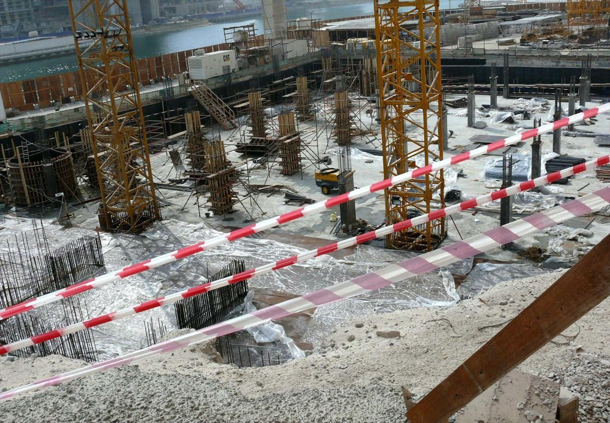 This is a photo showing the construction of Pier 8, located in Dubai Marina in Dubai, United Arab Emirates, on 4 January 2008.